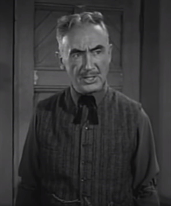 Robert Emmett Keane in the TV series The Lone Ranger, episode Return of the Convict - cropped screenshot